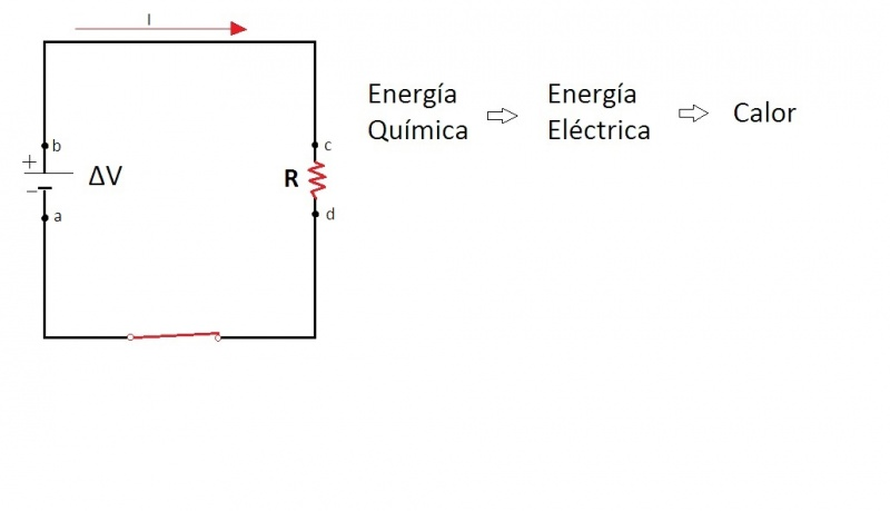 Circuito simple. Disipar potencia